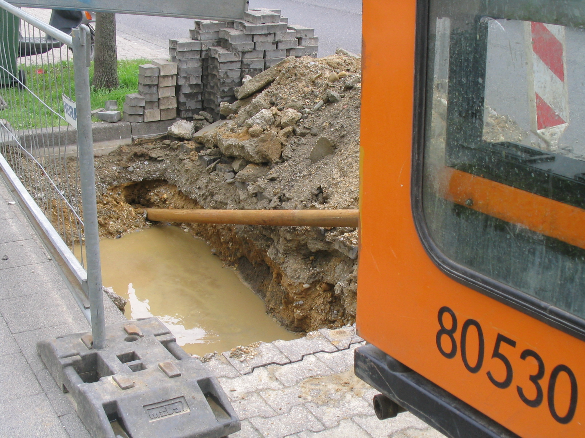 A horizontal drilling machine